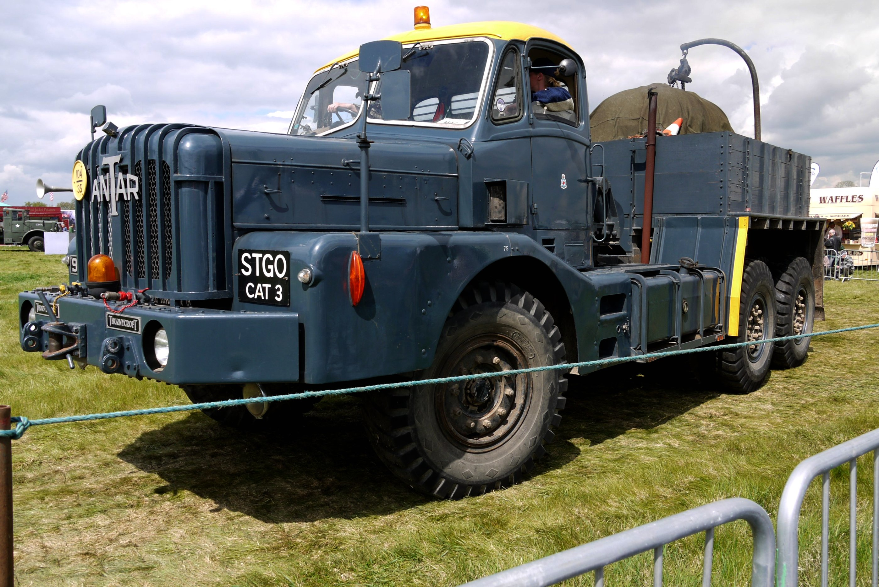 RAF Thornycroft Antar Lorry.